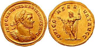 MAXIMIANUS. 286-310 AD. AV Pre-Reform Aureus (5.11 gm). Rome mint. Struck 286 AD. IMP C M AVR VAL MAXIMIANVS AVG, laureate and cuirassed bust right IOVI CO-NSER-VAT AVGG, Jupiter standing left, holding thunderbolt and sceptre. RIC V 492 var. (obv. legend); Depeyrot 2B/3 var. (same); Cohen 348 var. (same).